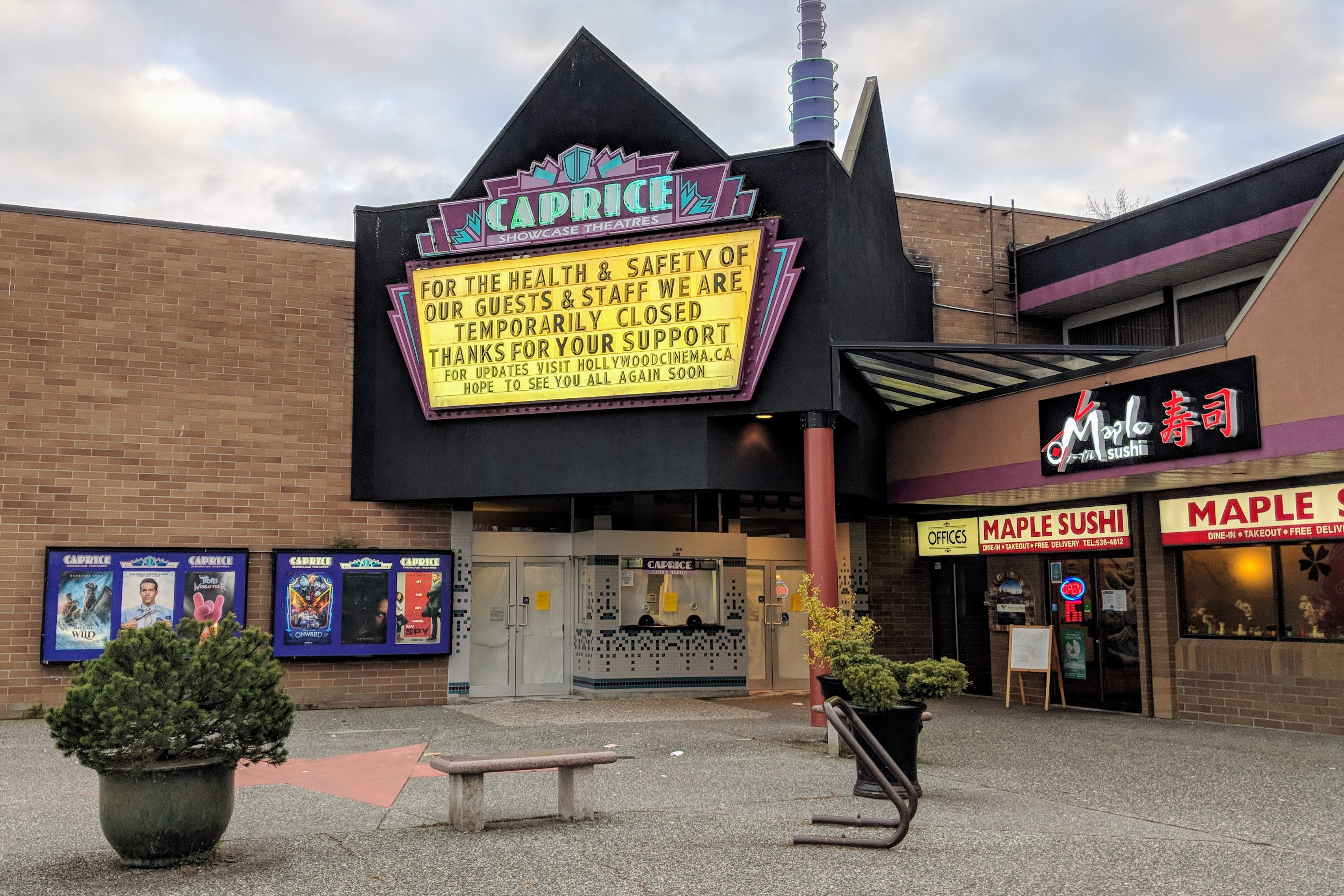 South Surrey cinema closed due to the COVID-19 pandemic. Photo taken in April 2020 in Surrey, British Columbia, Canada.